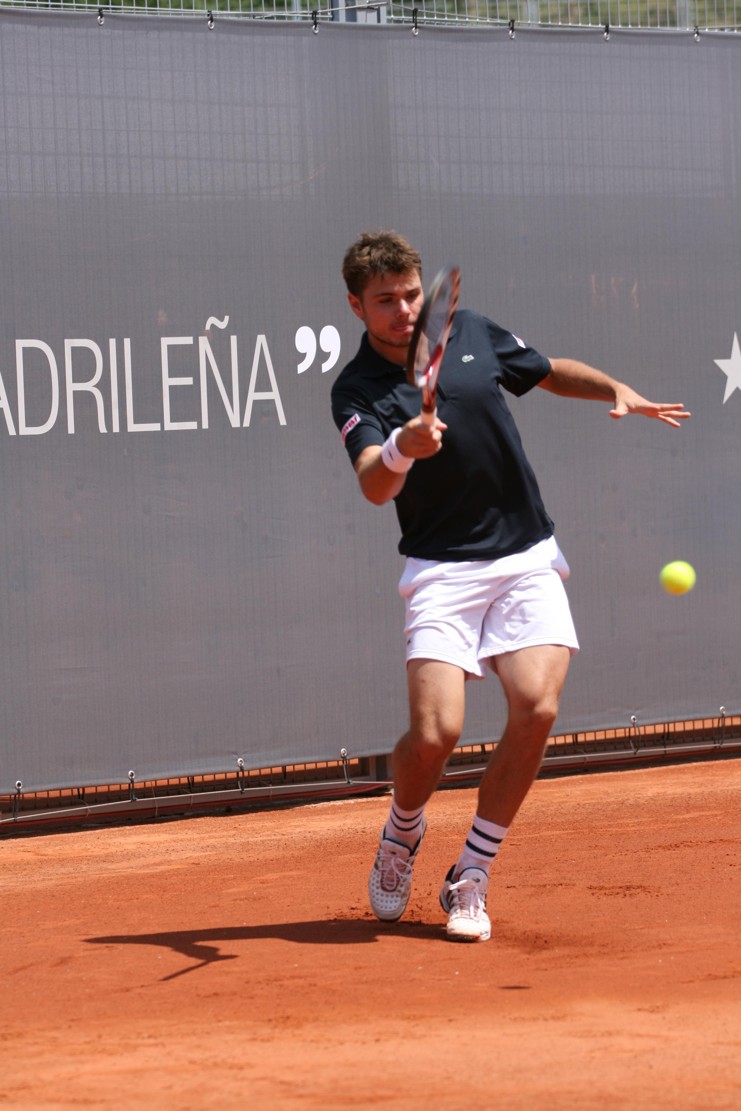 Stanislas Wawrinka against Jérémy Chardy in the 2009 Mutua Madrileña Madrid Open second round